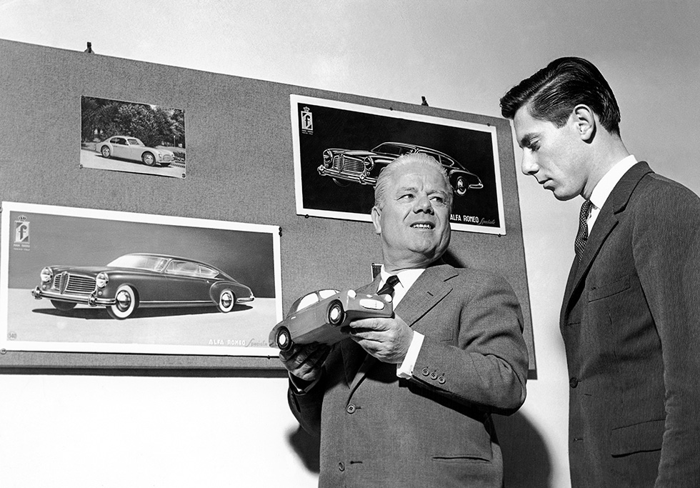 From left to right: Italian entrepreneur and coachbuilder Giovanni Battista "Pinin" Farina (1893–1966) in his office with his son Sergio (1926–2012), future entrepreneur, coachbuilder, designer and senator for life, April 10, 1950.